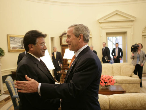 President George W. Bush welcomes His Excellency Pervez Musharraf, President of the Islamic Republic of Pakistan, to the Oval Office Friday, Sept. 22, 2006. The two discussed a number of issues, including earthquake recovery and continued intelligence cooperation. White House photo by Eric Draper